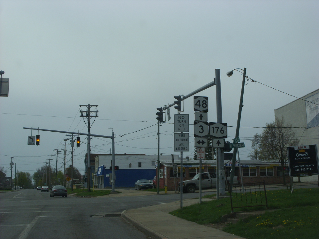 Southbound on New York State Route 48 at New York State Route 3 in Fulton. The sign assembly in this direction also includes a shield for New York State Route 176; however, that route was truncated to a junction with NY 48 several blocks to the south in 1980.